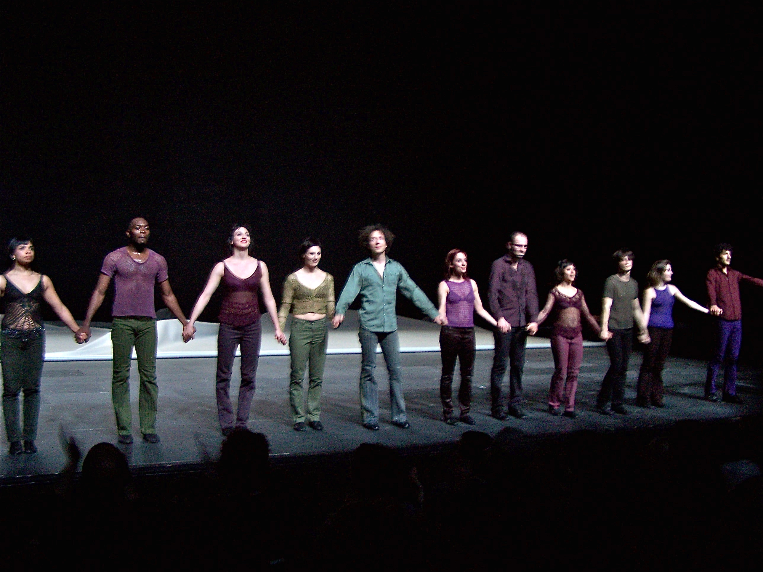 Dancers of the CCN de Grenoble (Company Jean-Claude Gallotta) at the end of Le Sacre du Printemps, Théâtre national de Chaillot, Paris